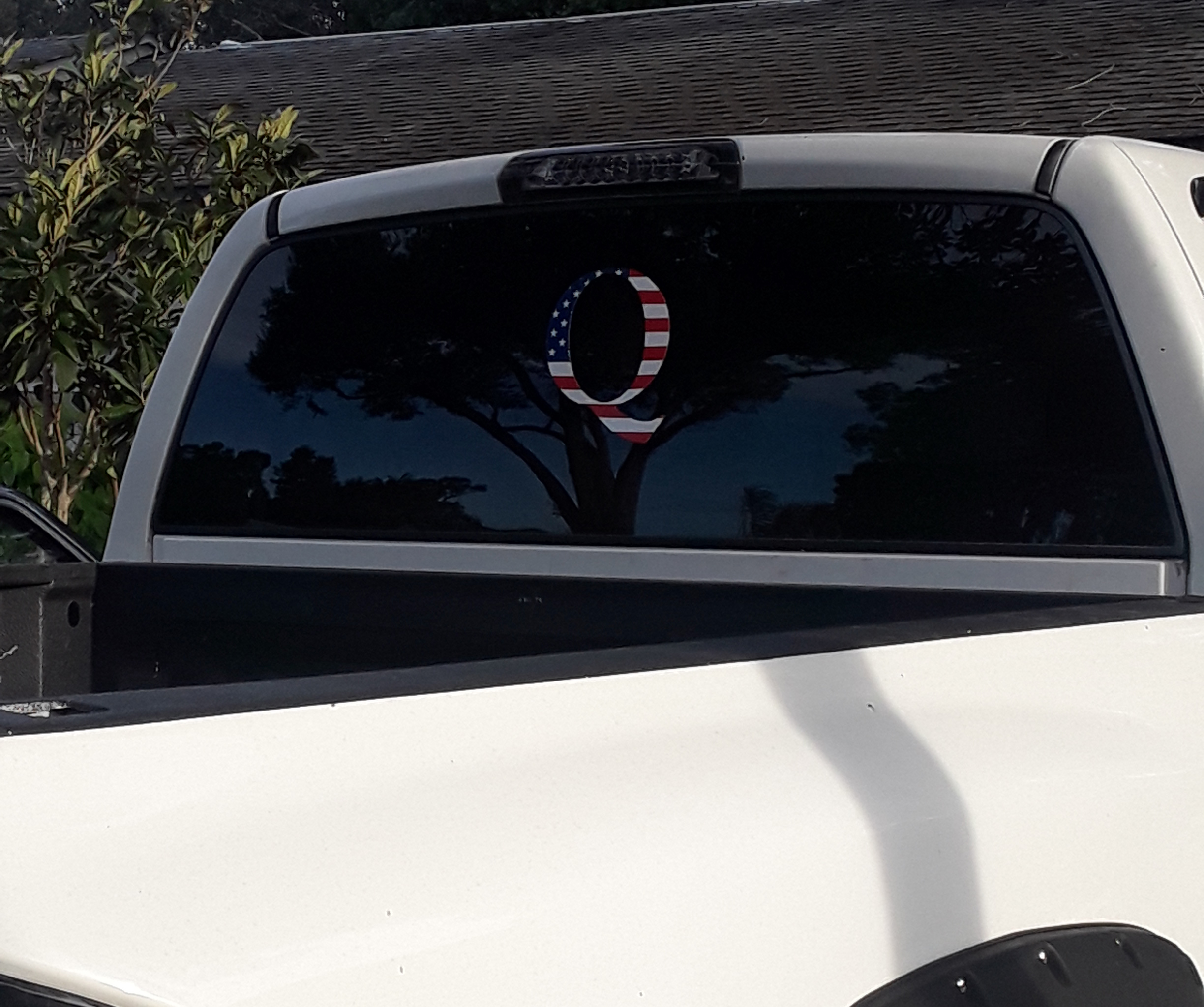 This photo is of a United States resident truck with a bumper sticker adhered to the rear cab window representing or referring to QAnon.